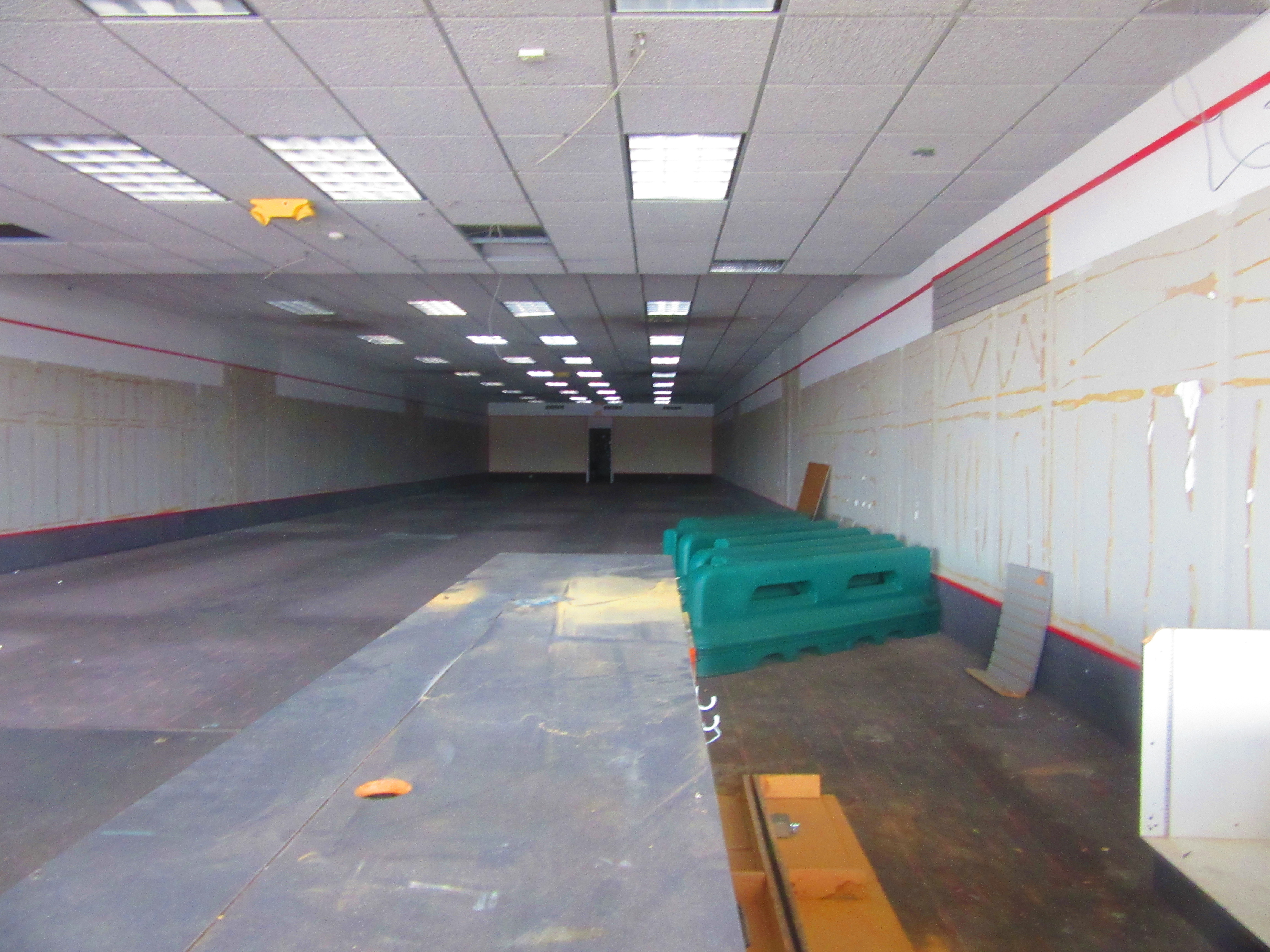 Southgate Shopping Center, taken by me on January 31st, 2015.